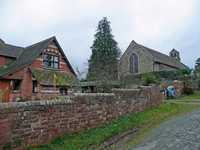 St Michael's parish church (right) and former parish school (left), Edgton, Shropshire, seen from the northeast